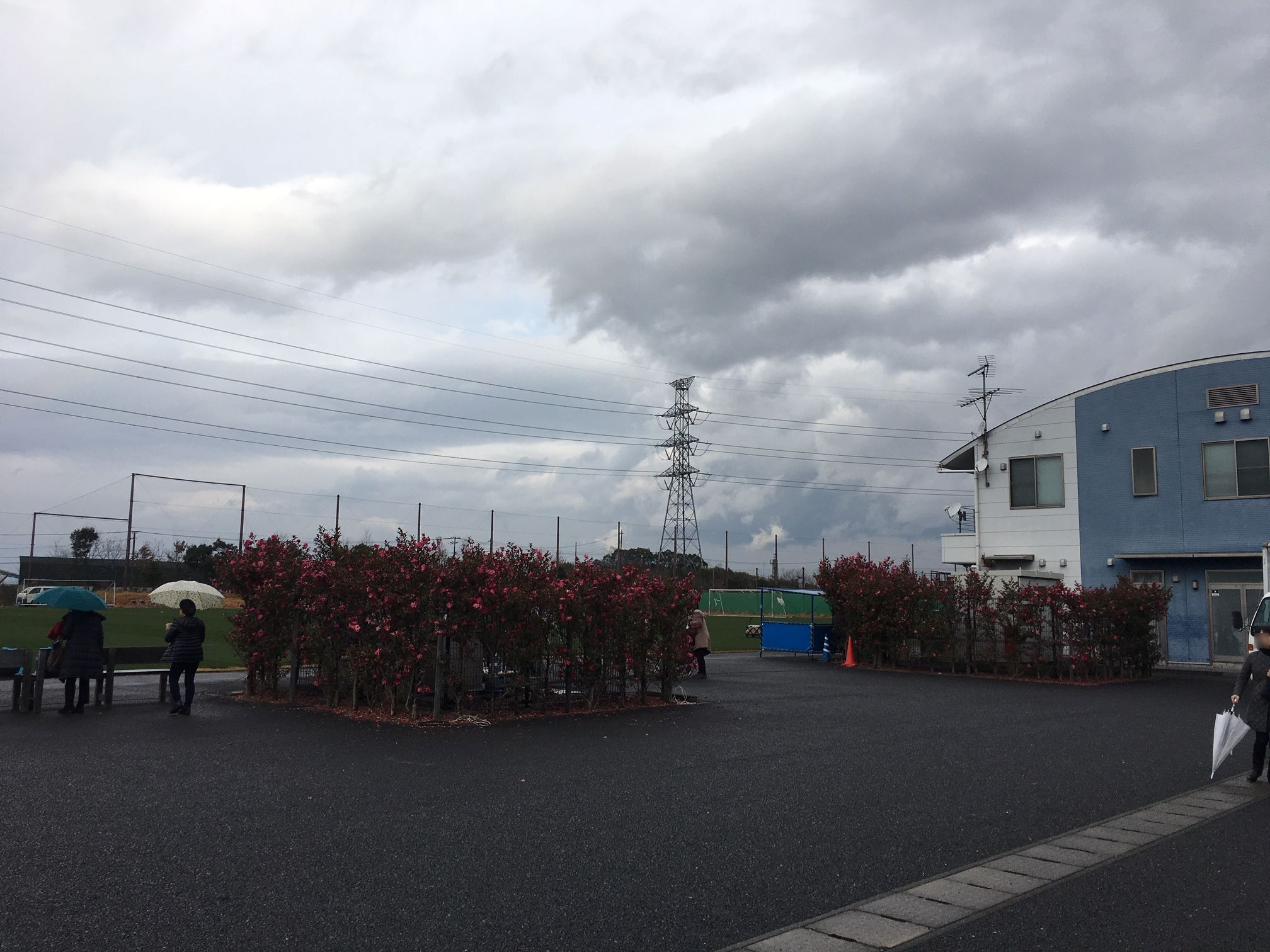 Oita Sports club, Natural grass court & Club house